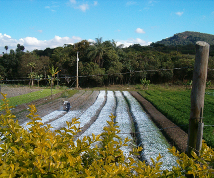 Dom Orione, a small agricultral community of 39 homes situated 10 minutes from Betim, the site of one of Project Gaia Inc.'s Brazilian pilot studies. Dom Orione, a small agricultral community of 39 homes situated 10 minutes from Betim, the site of one of Project Gaia Inc.'s Brazilian pilot studies.